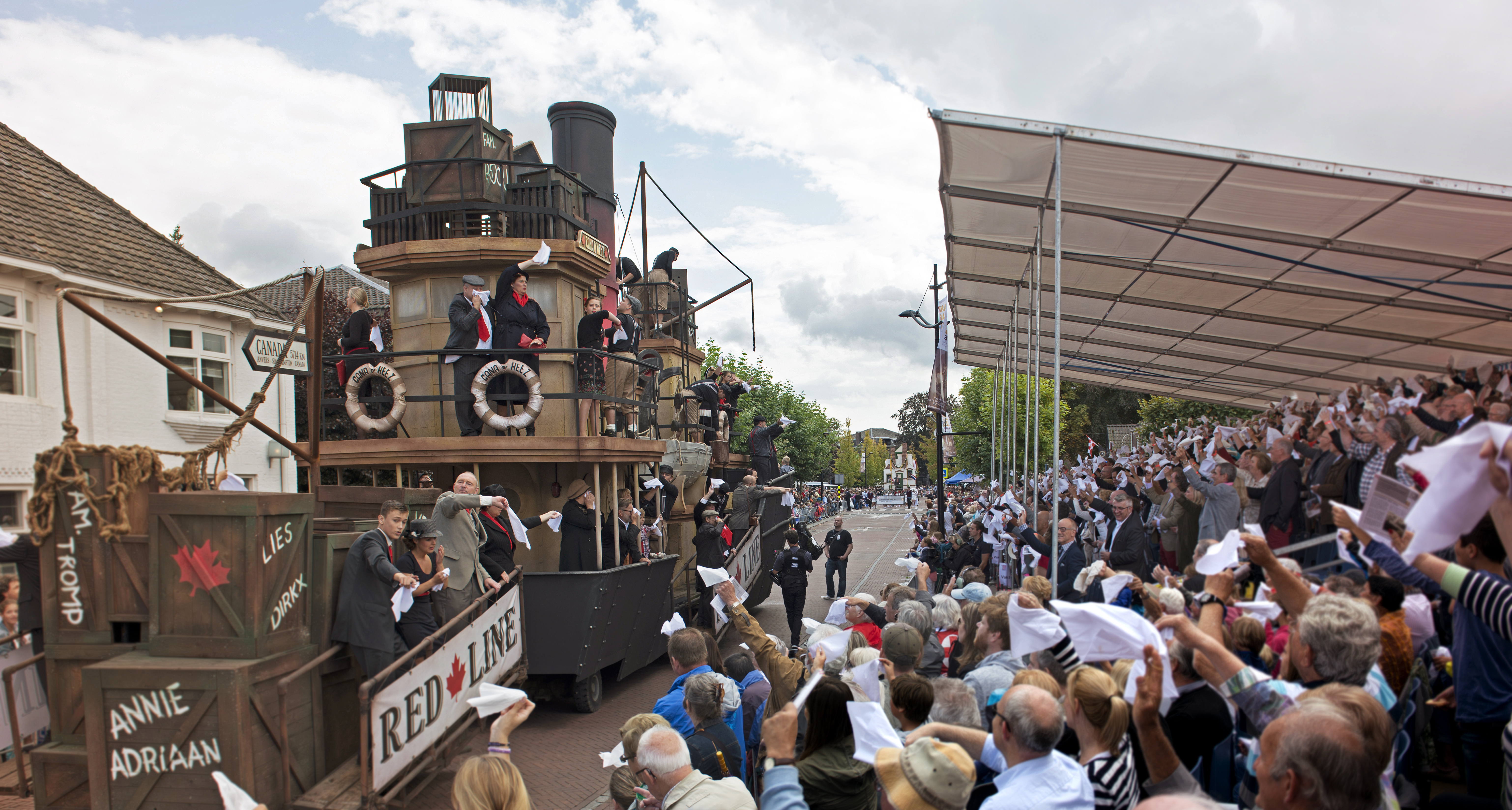 Brabantsedag 2014 - VK Van Gaal